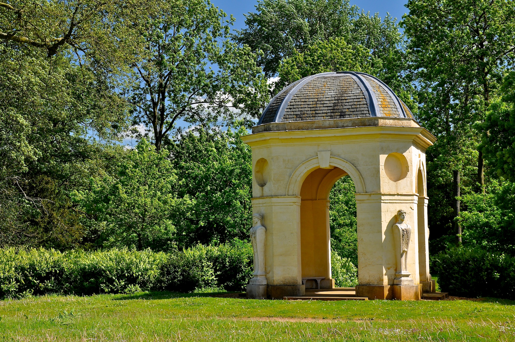 The Fane of Pastoral Poetry